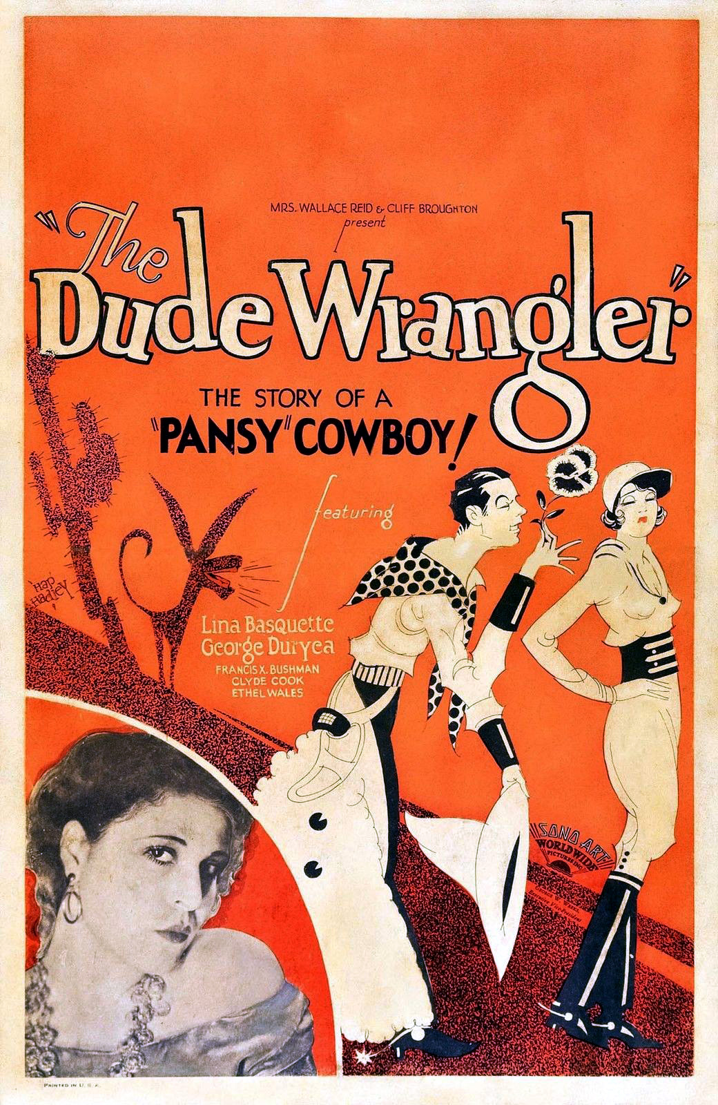 Window poster for the 1930 film The Dude Wrangler.